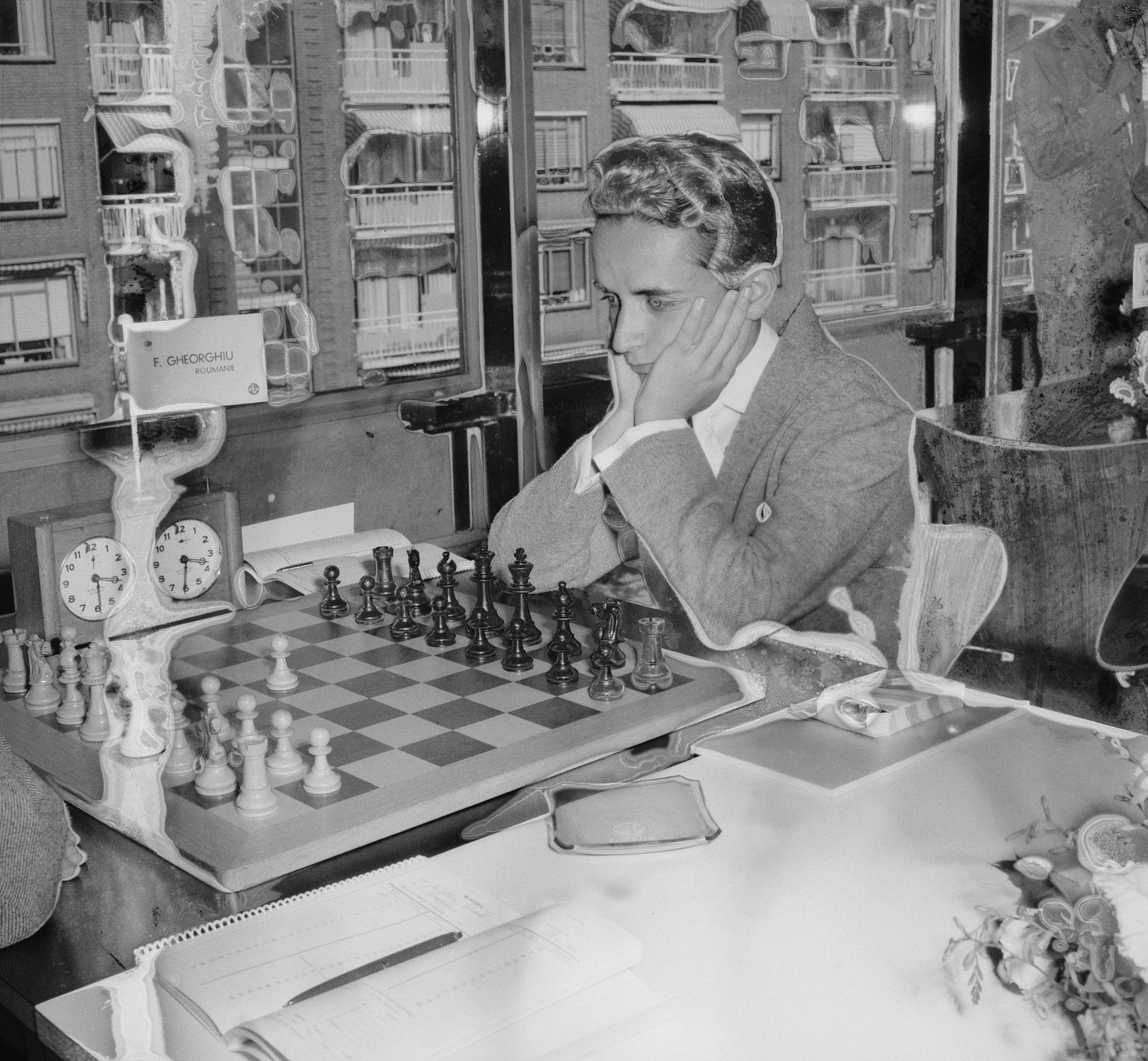 Florin Gheorghiu at the World Junior Chess Championships (the Netherlands), August 1961